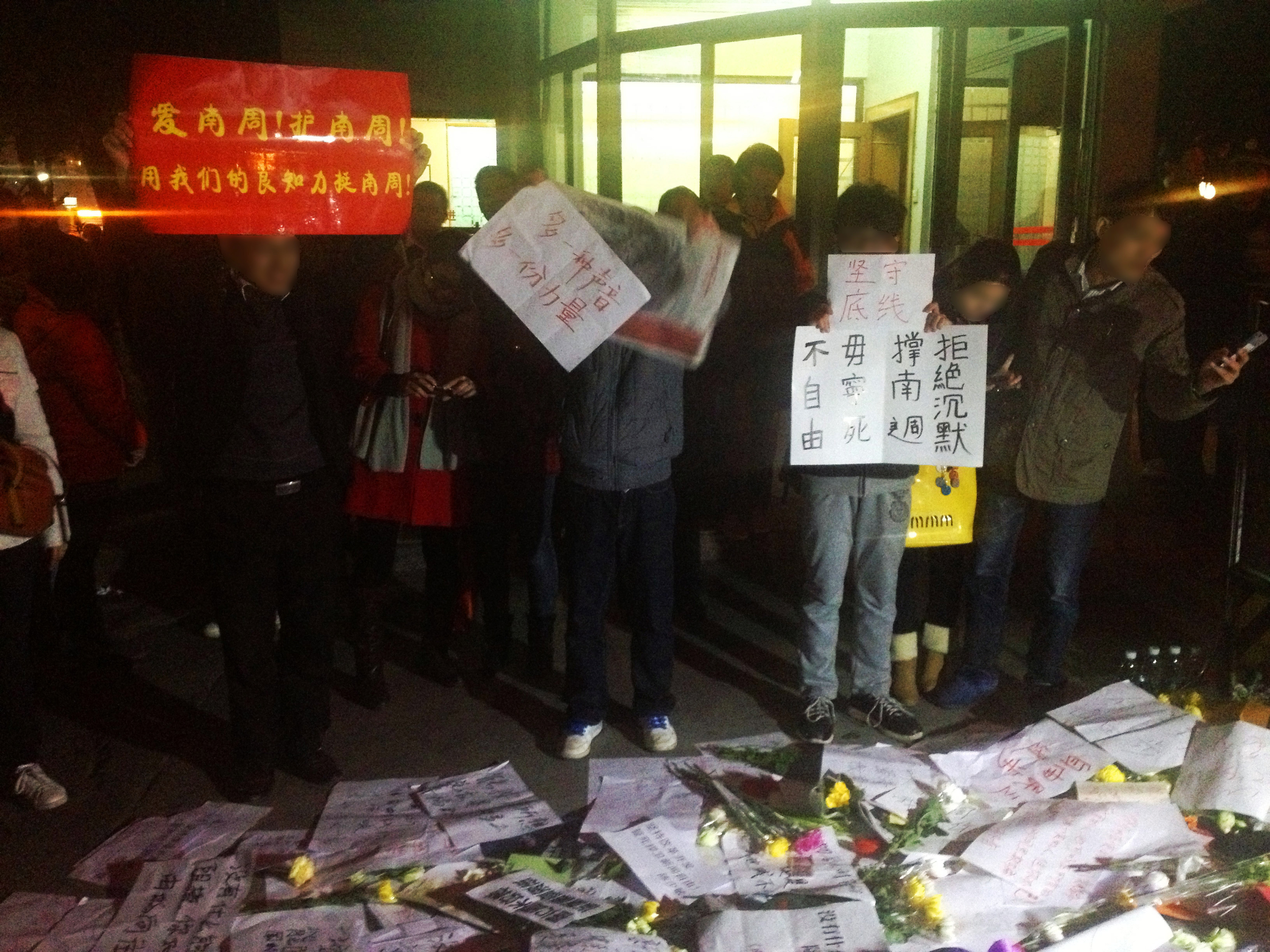 2013 Southern Weekly Demonstration of News Censorship.